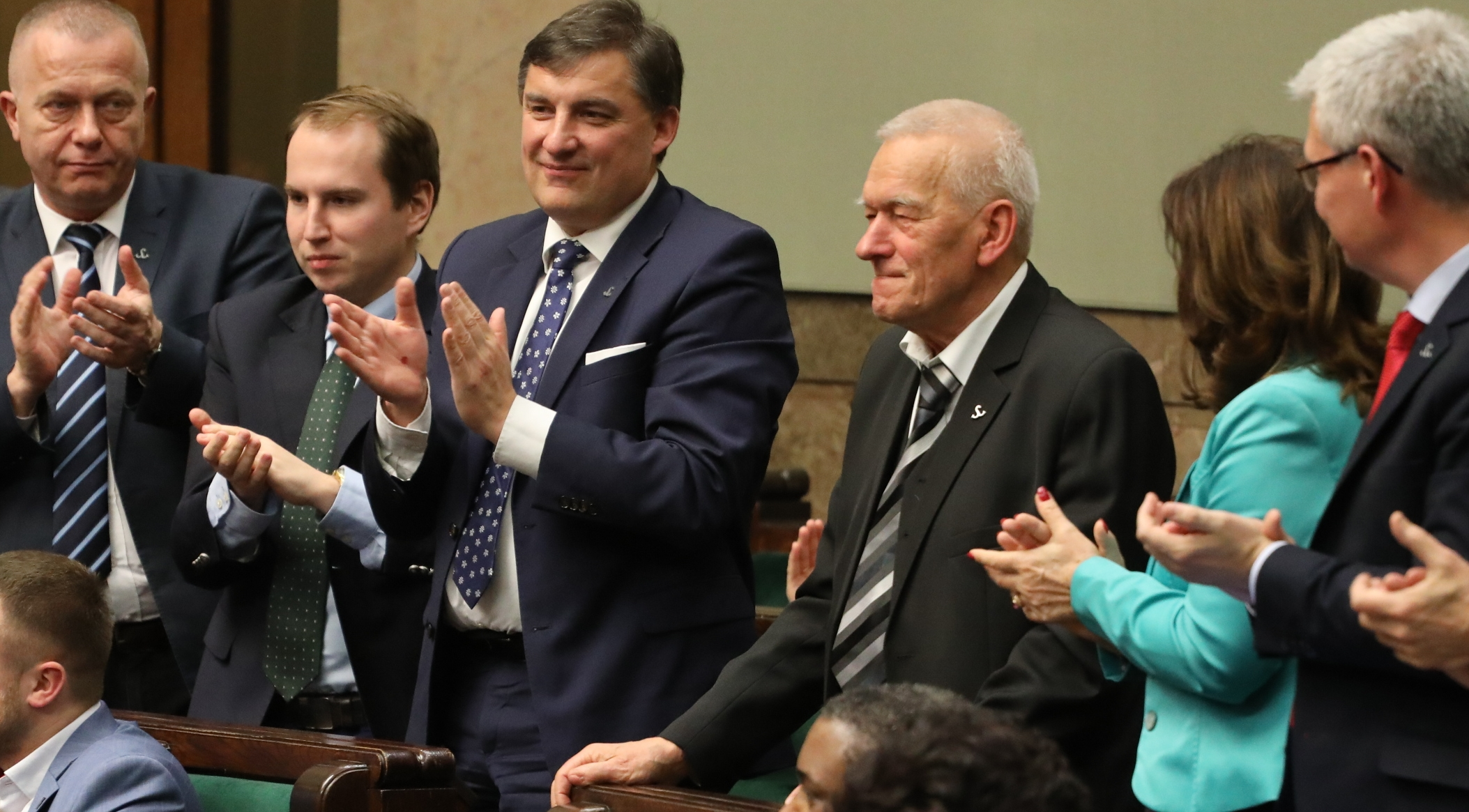 Exposé of Prime Minister Mateusz Morawiecki in the Sejm 02 (cropped). Kornel Morawiecki during the expose of Prime Minister Mateusz Morawiecki. December 12, 2017.